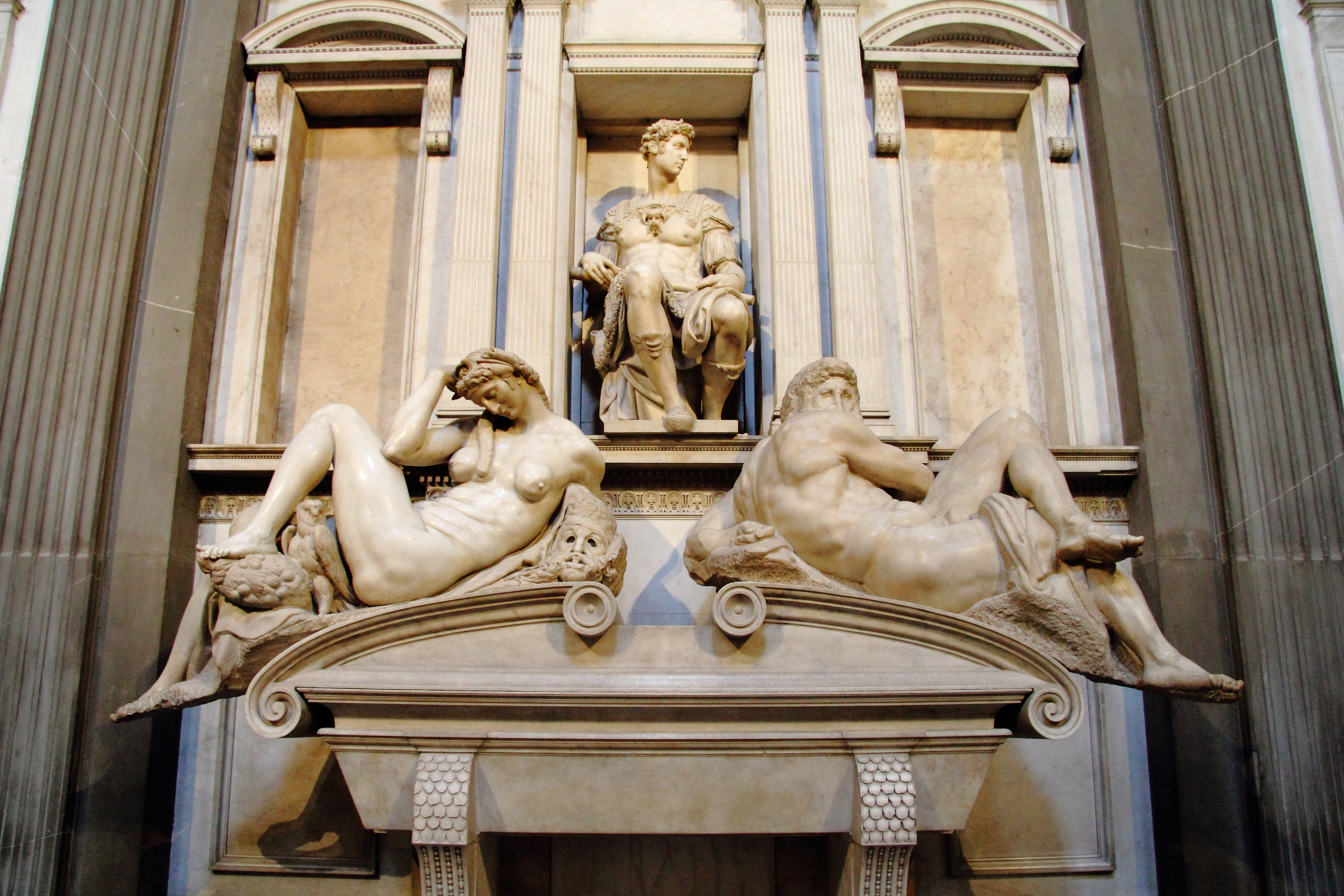 Florence, Italy: San Lorenzo, New Sacristy